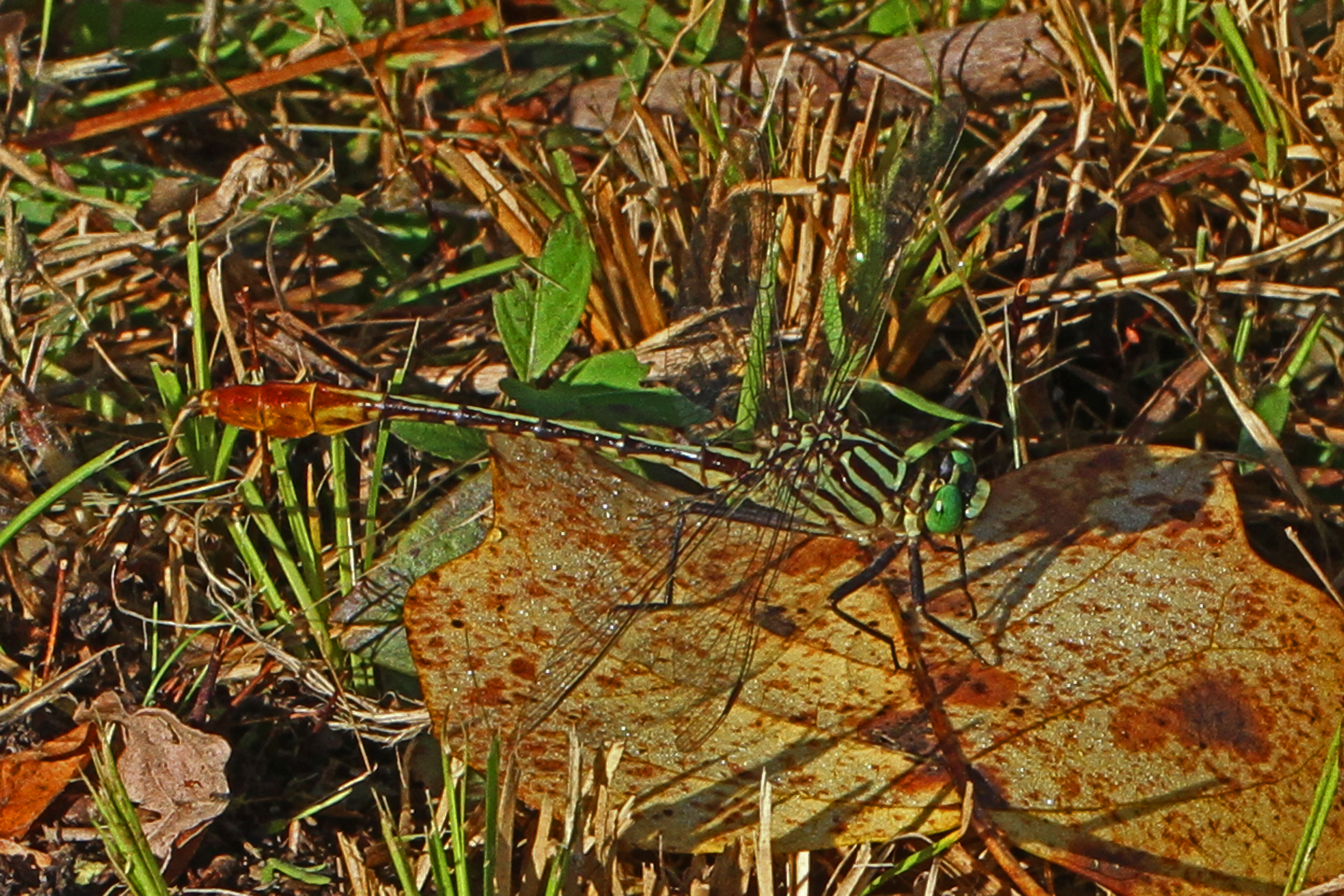 Southeastern Spinylegs - Dromogomphus armatus, Carolina Sandhills National Wildlife Refuge, McBee, South Carolina. Although this is a large dragonfly, I almost didn't notice it as it blended in so well with its surroundings. I managed to get three mediocre shots before it took off.